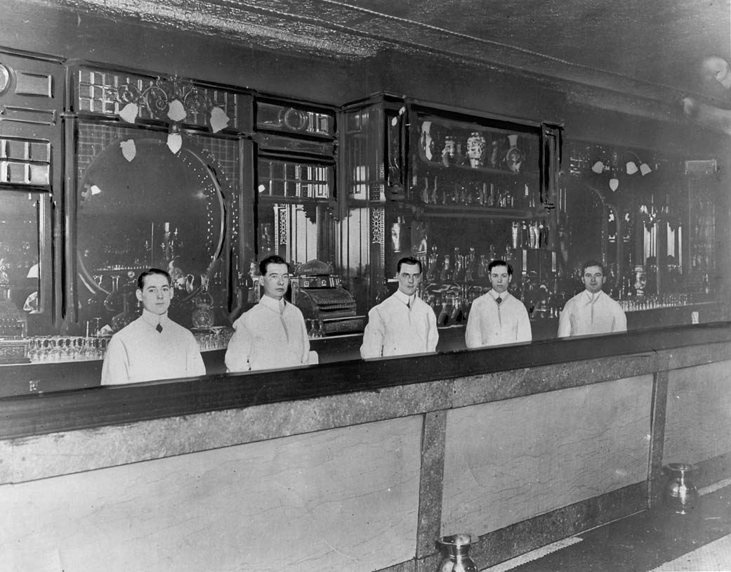 Five bartenders behind St. Charles Hotel bar, Toronto, Canada.